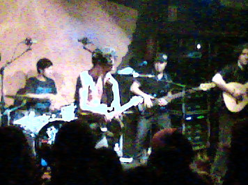 Tomasito in concert. Jerez (Andalusia, Spain)